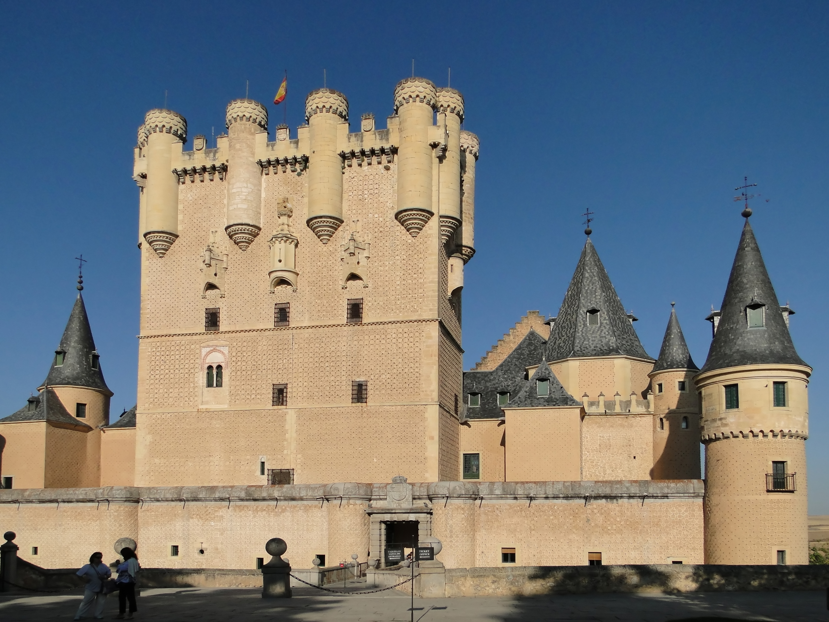 Alcázar of Segovia, Spain